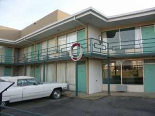 The assassination site. The Lorraine Motel, where King was assassinated, now the site of the National Civil Rights Museum. Photographer: Bob Jagendorf Website